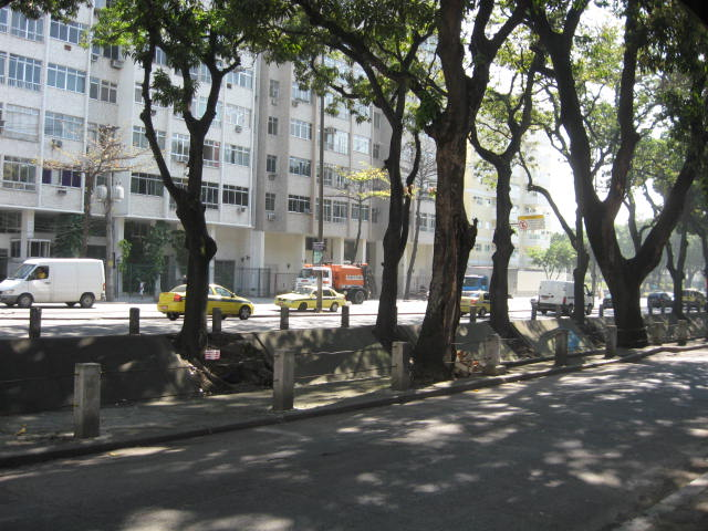 Maracanã Avenue, Rio de Janeiro City, Brazil